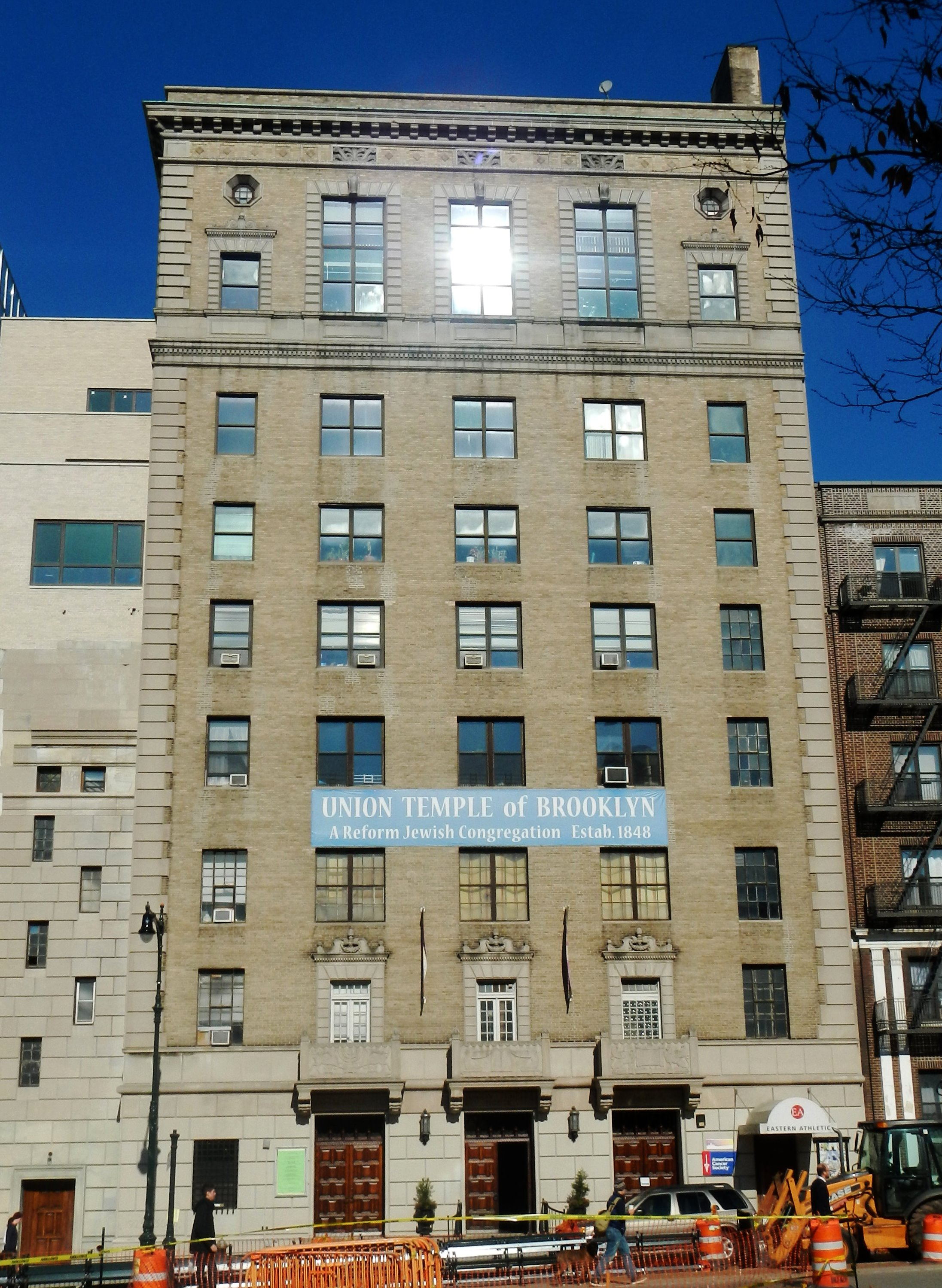 Looking north across Eastern Parkway at Union Temple, originally intended to be the congregation's Community House, on a sunny late morning.